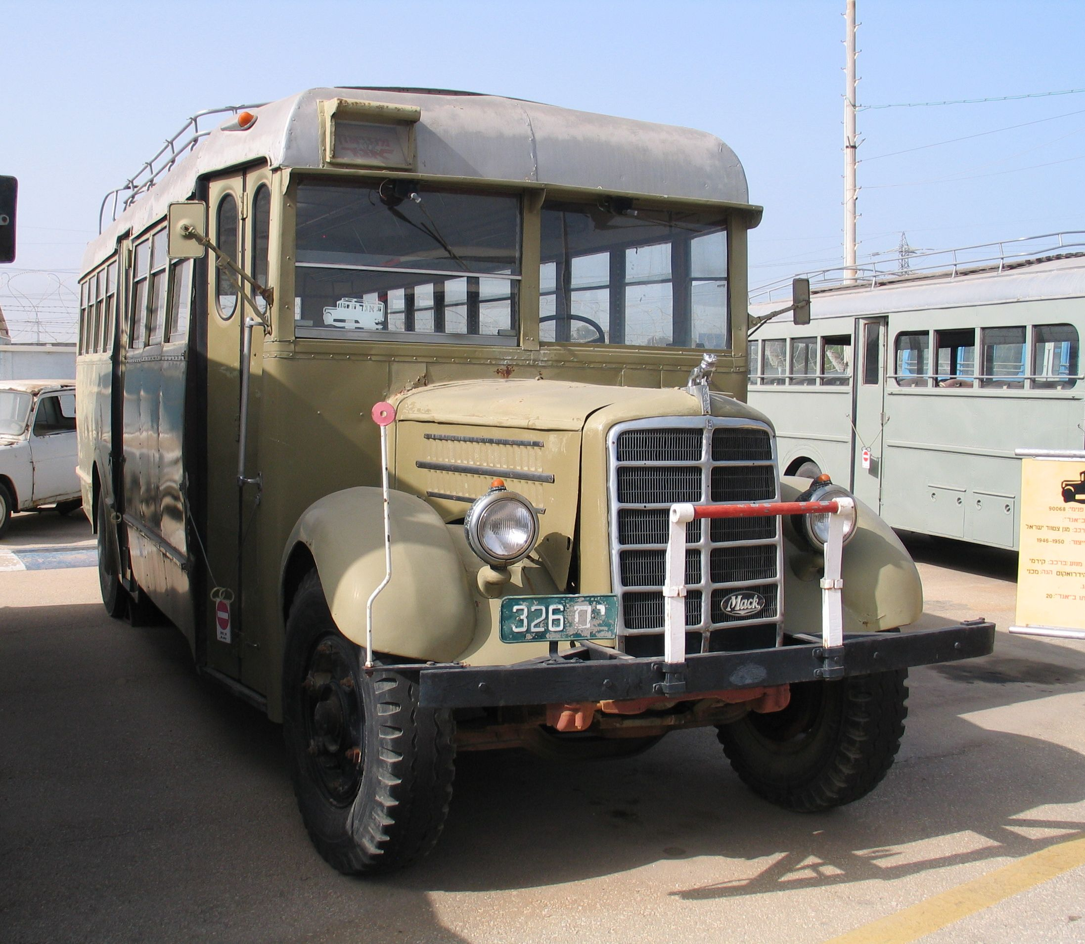 A bus (Mack chassis, body produced by HaArgaz, Israel) in the Egged Museum, Holon, Israel.